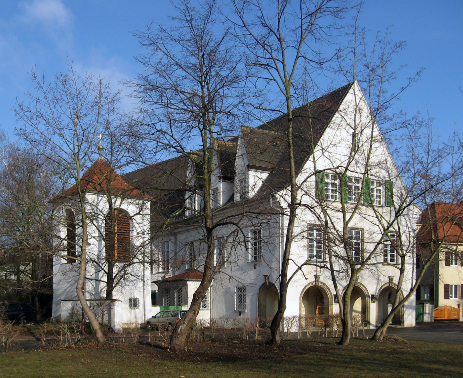 protestant parish house (oratory) at Boehlitz-Ehrenberg (Leipzig), Johannes-Weyrauch-Platz 2